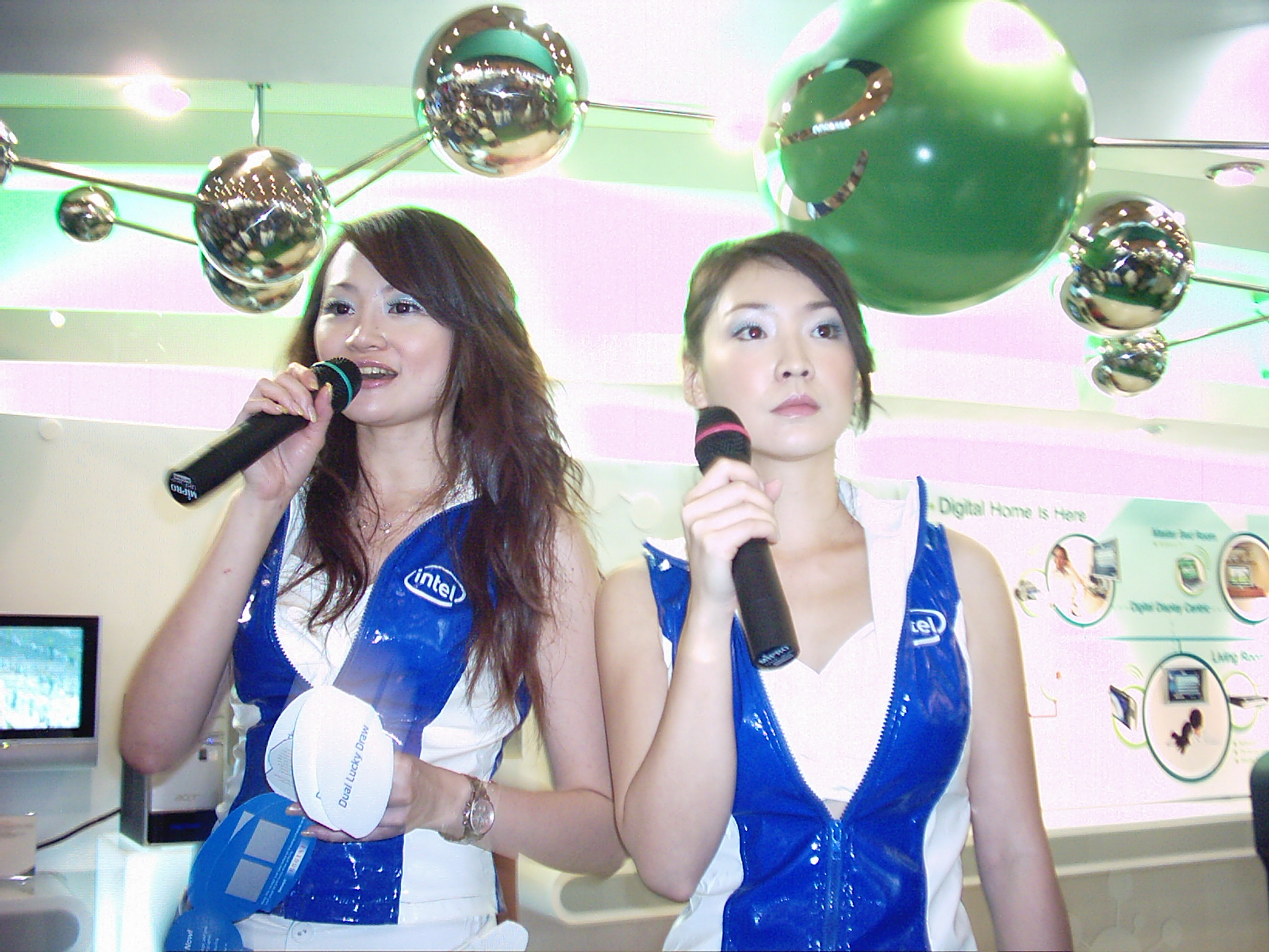 Computex Taipei 2006: Show Ladies.